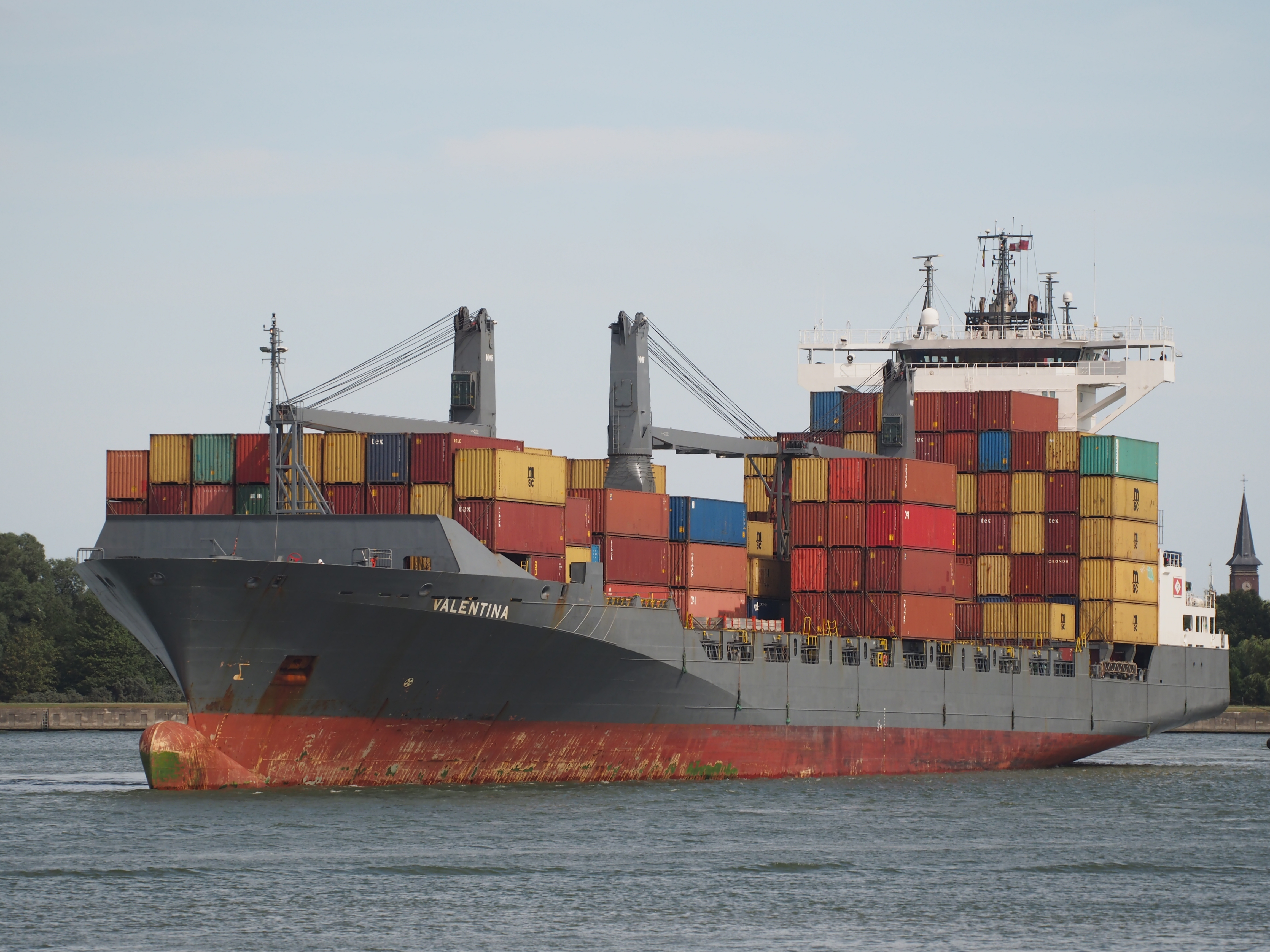 Valentina IMO 9344722, Port of Antwerp.